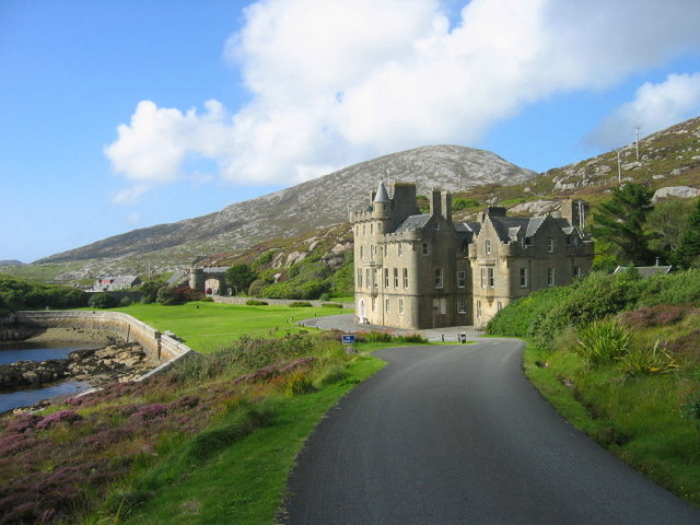 Abhainnsuidhe (Amhuinnsuidhe) Castle The castle is a hotel and can be hired exclusively I was informed by some inmates for a "princely sum". Their web site is worth looking at --- even if it's just to see how the other half live - or is it 5%? One owner was Thomas Sopwith the aircraft pioneer and I was told that The Bulmer (cider) family owned it at one time. Most of this is second hand information.